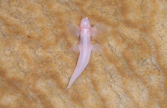 Cave Angel Fish in Mae Hongson, Thailand by Chulabush Khatancharden Attribution 2.0 Generic (CC BY 2.0)